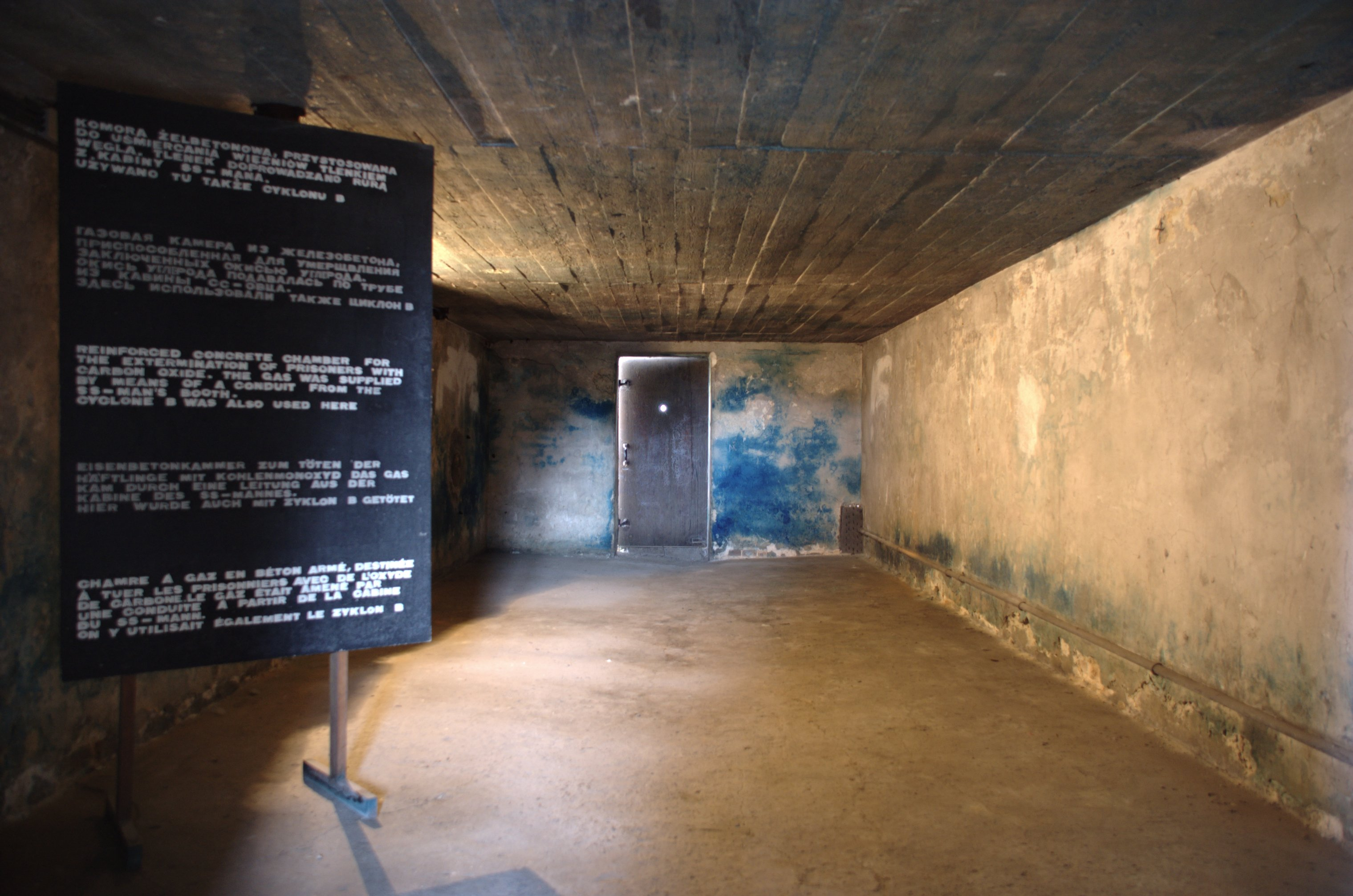 In this chamber the prisioners were murdered with carbon monoxide. It took about 40 minutes to kill a person with carbon monoxide and only 10 with Zyklon B